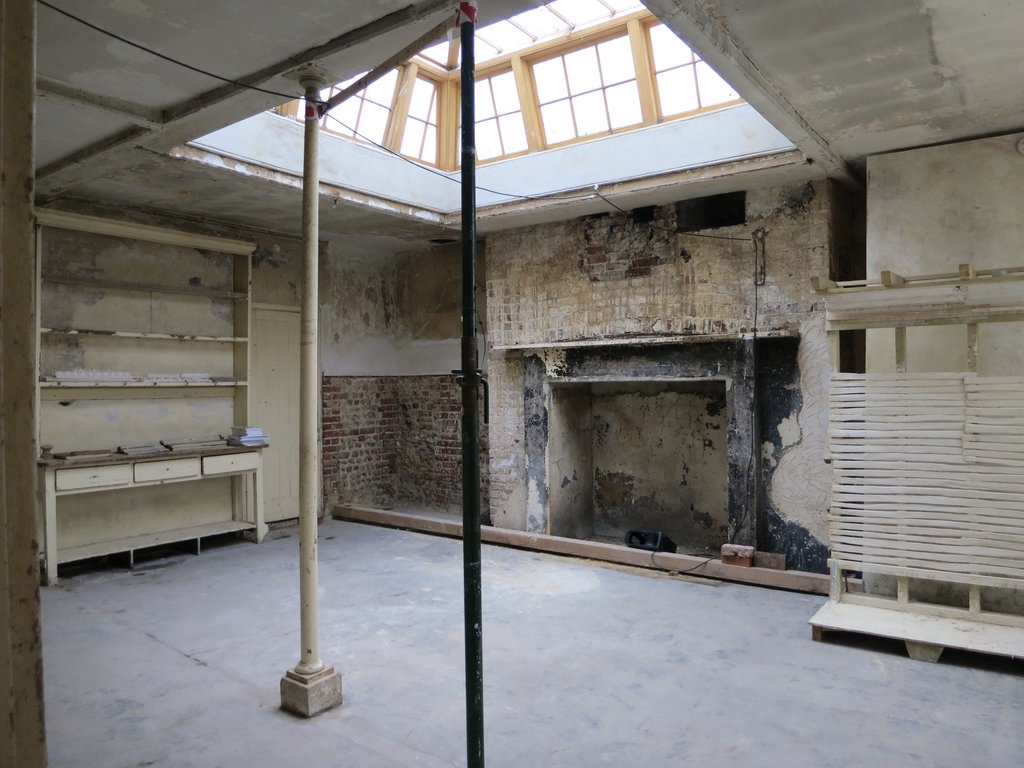 An old kitchen, some of the walls have no plaster on them and you can see the brick behind. The rest of the large room is bare. A concrete floor and walls which are painted a yellowy white colour. There is an original dresser, a large fireplace and a lath and plaster demonstration rig in the corner. There is also a skylight in the ceiling. It is large.